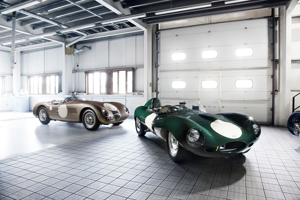 Jaguar C & D-type